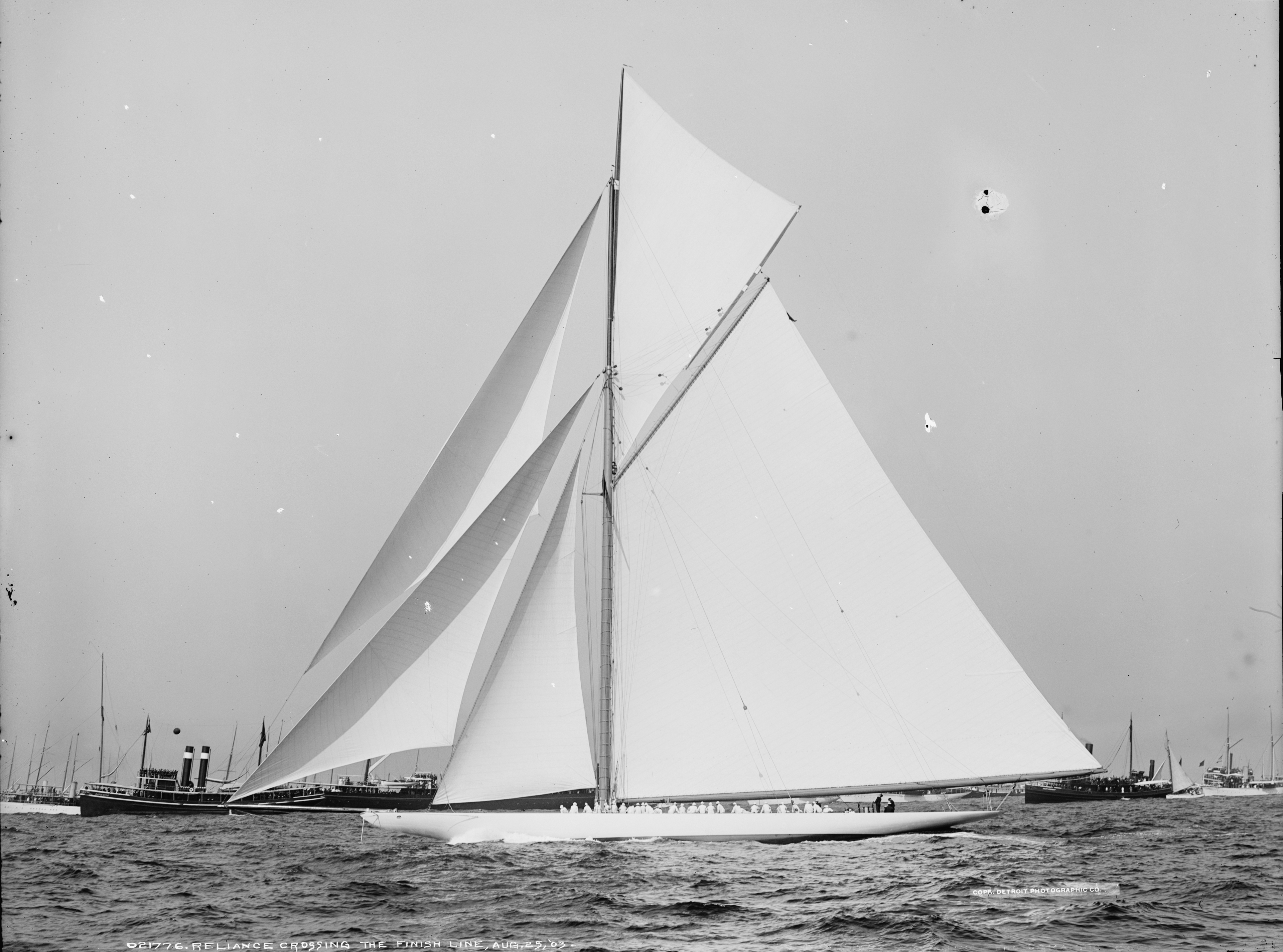 The America's Cup defender Reliance crossing the finish line on the August 25th race.